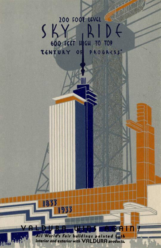 200 Foot Level Sky Ride, 600 Feet High To Top, Century Of Progress